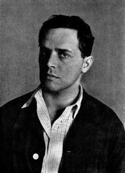 Bronislav Malakhovsky